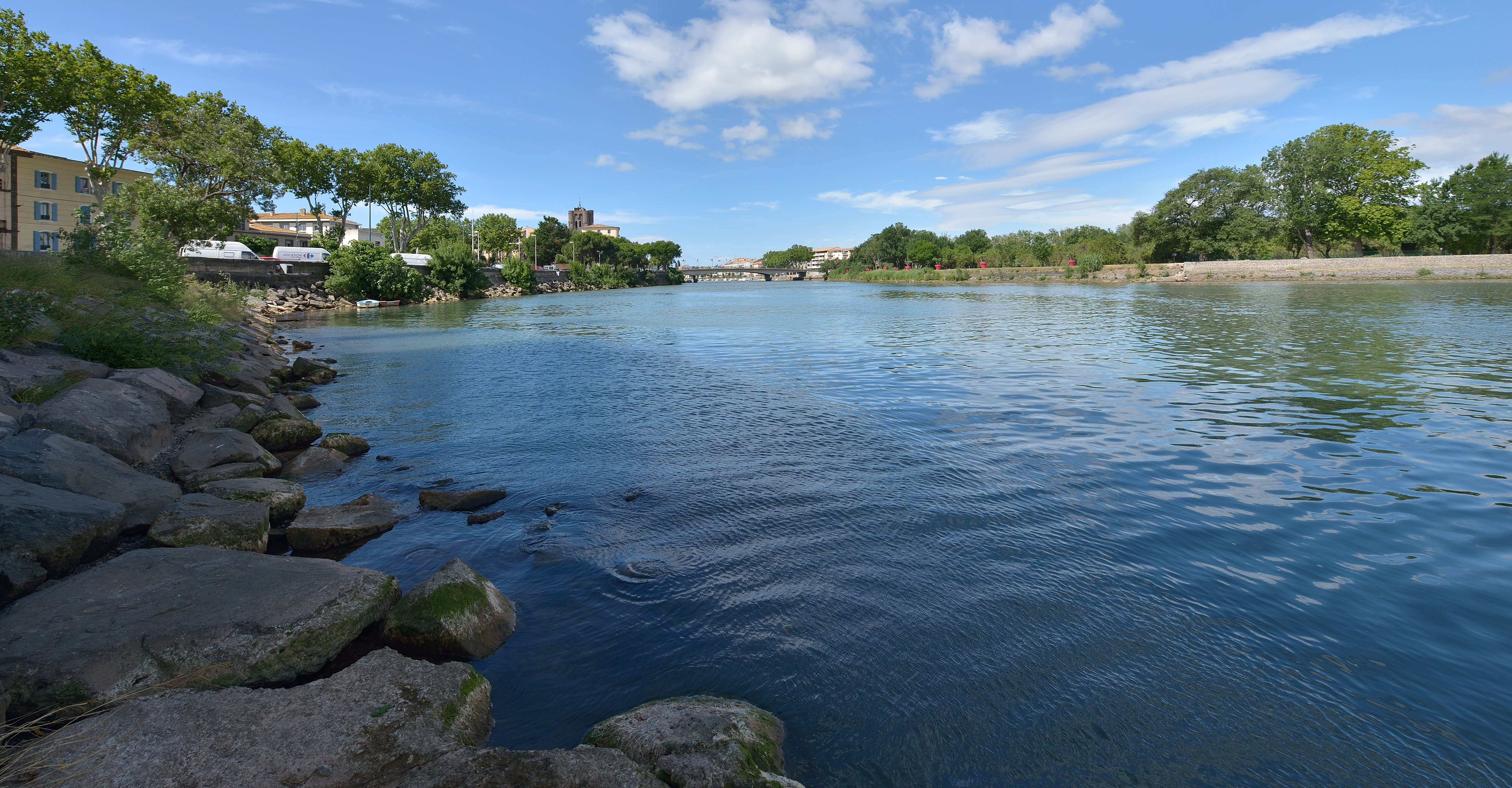 Hérault River. Agde, Hérault, France.